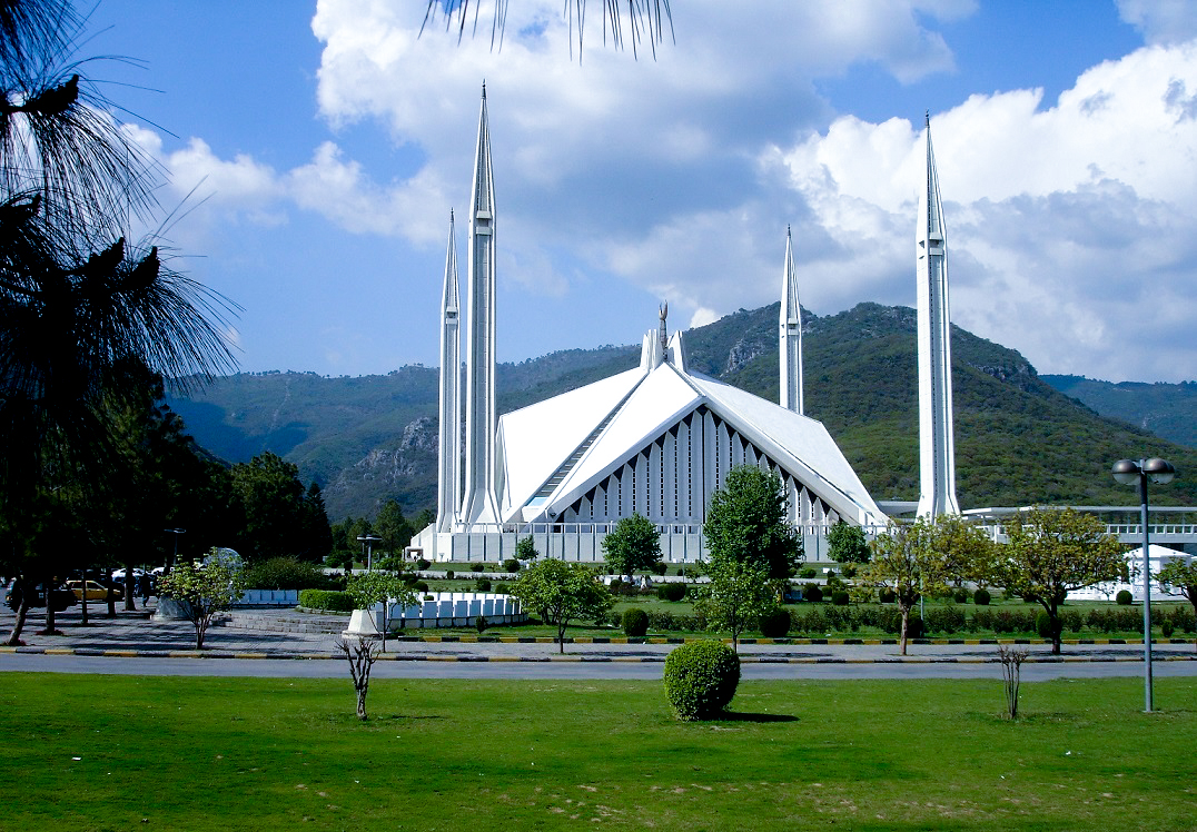 Faisal Mosque This is a photo of a monument in Pakistan identified as the ICT-5